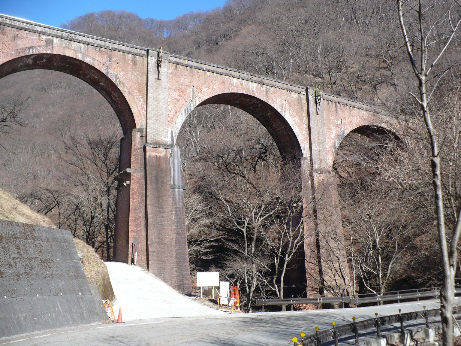 Usui No.3 bridge on the old Shin'etsu mainline, Matsuida, Gumma, Japan.